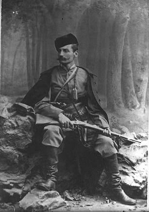 King Peter Petar I Karađorđević, in 1875-76